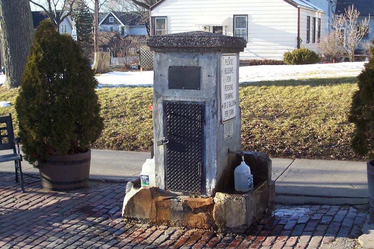 Copyright © 2006 Sulfur The Pryor Avenue Iron Well is an early artesian water well located in the Bay View Historic District of Milwaukee, Wisconsin.